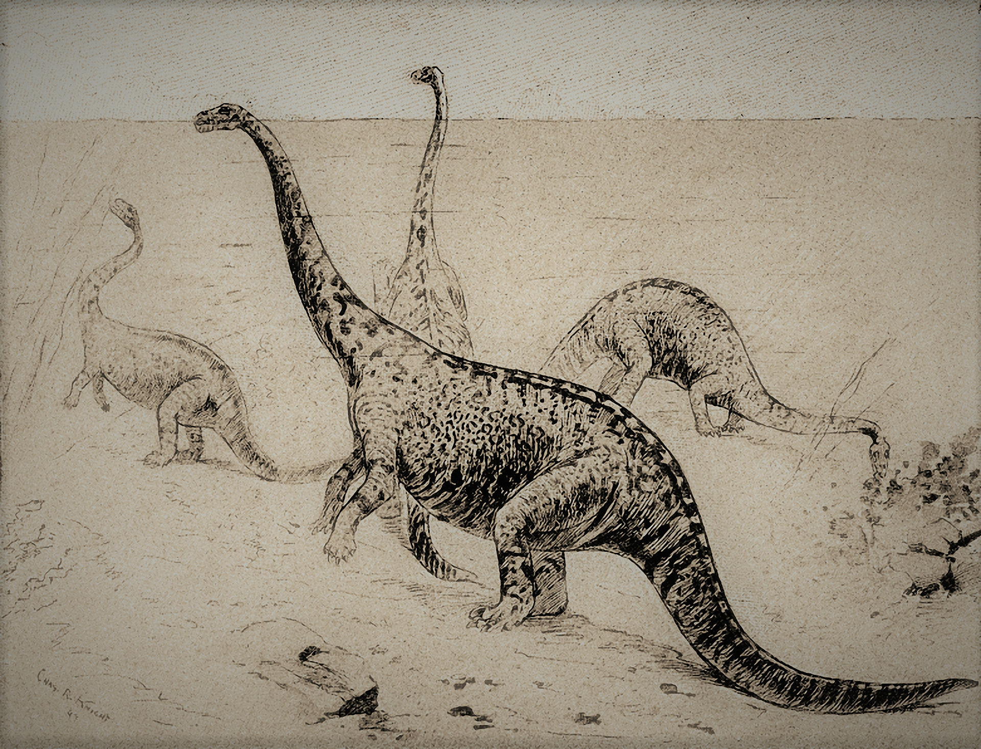 Life restoration of Amphicoelias altus, original caption below. THE AMPHIBIOUS DINOSAUR. Amphicælius altus (Cope) was one of the tallest lizards, the type skeletons being from sixty to eighty feet in height. It could wade and lift its head above the surface to browse on overhanging branches, or lower it to the bottom for vegetation. It could not swim or walk on land, because of its many tons' weight. It was alone omnivorous, eating everything it could reach or seize. Strange Creatures of the Past